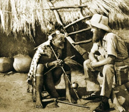 Talking with a pygmy shaman in Africa. The photo probably taken by Kazimierz Nowak (1897-1937, the author is on the photo; taken probably by a self-timer) during his trip through Africa - a Polish traveller, correspondent and photographer. Probably the first man in the world who crossed Africa alone from the North to the South and from the South to the North (from 1931 to 1936; on foot, by bicycle and canoe).